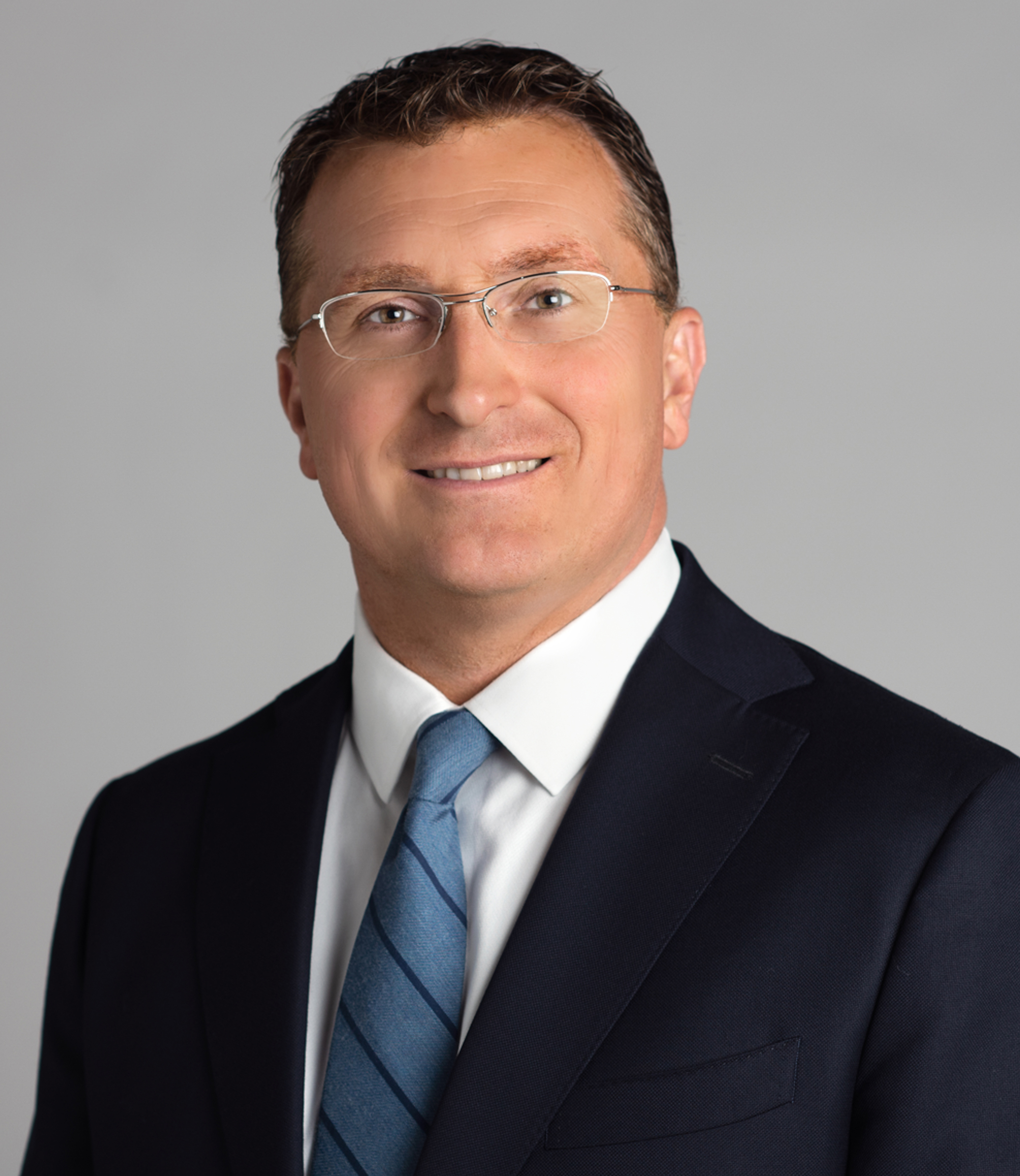 2019 headshot of Sean Compton, television and radio senior executive.